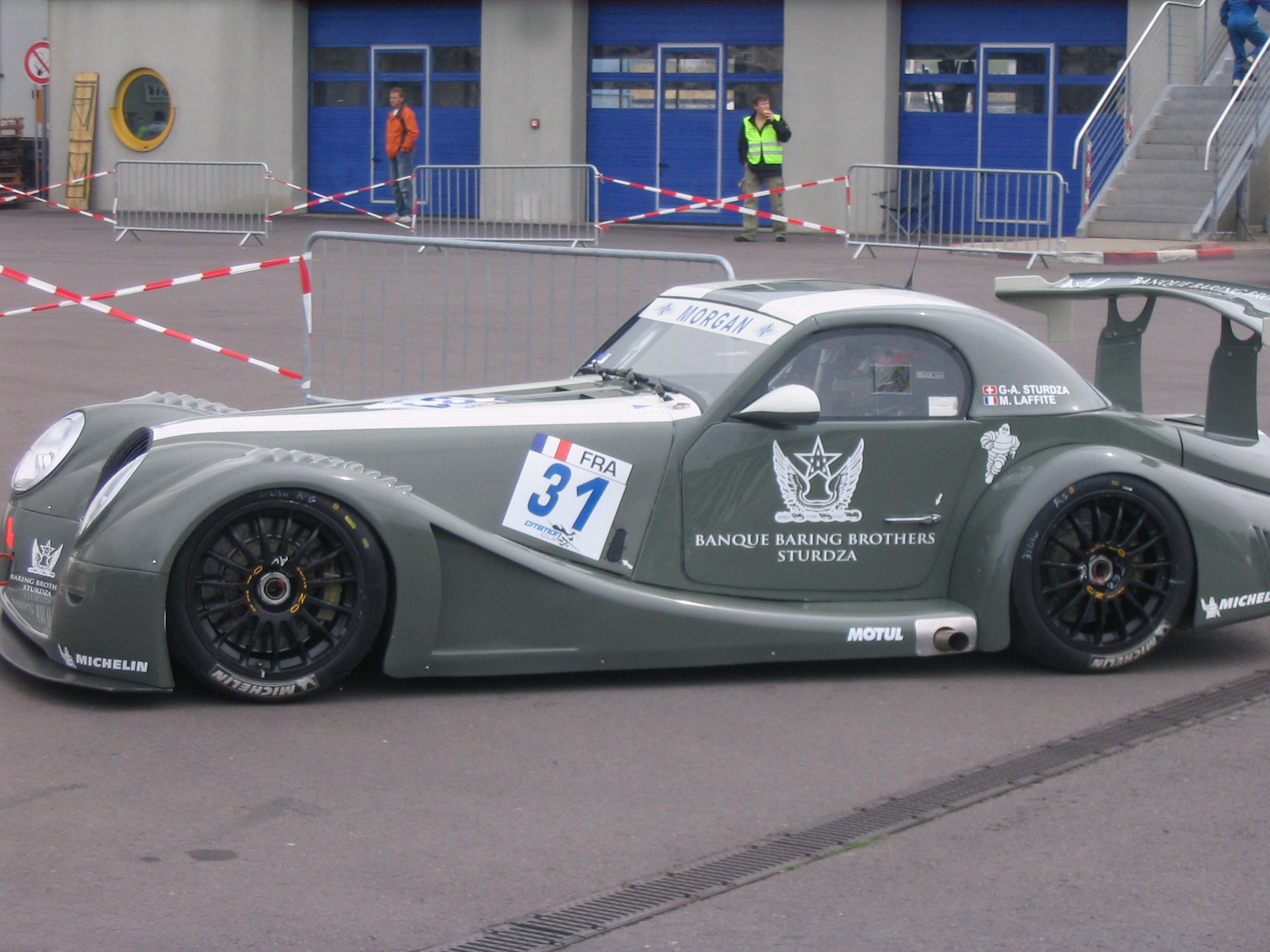 Morgan Aero 8 GT3 driven by George-Alexandre Sturdza and Marguerite Laffite at the FIA GT3 European Championship 2008 in Oschersleben. The car stand in the paddock next to the Parc Fermé.